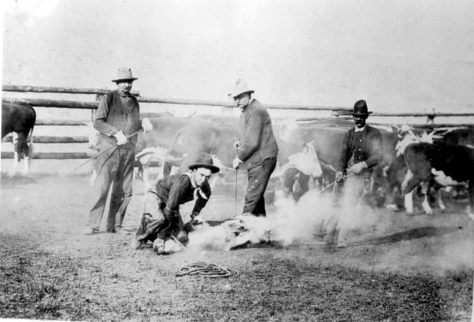 Grant-Kohrs Ranch National Historic Site, Montana, USA. John and Charles Bielenberg branding cattle.